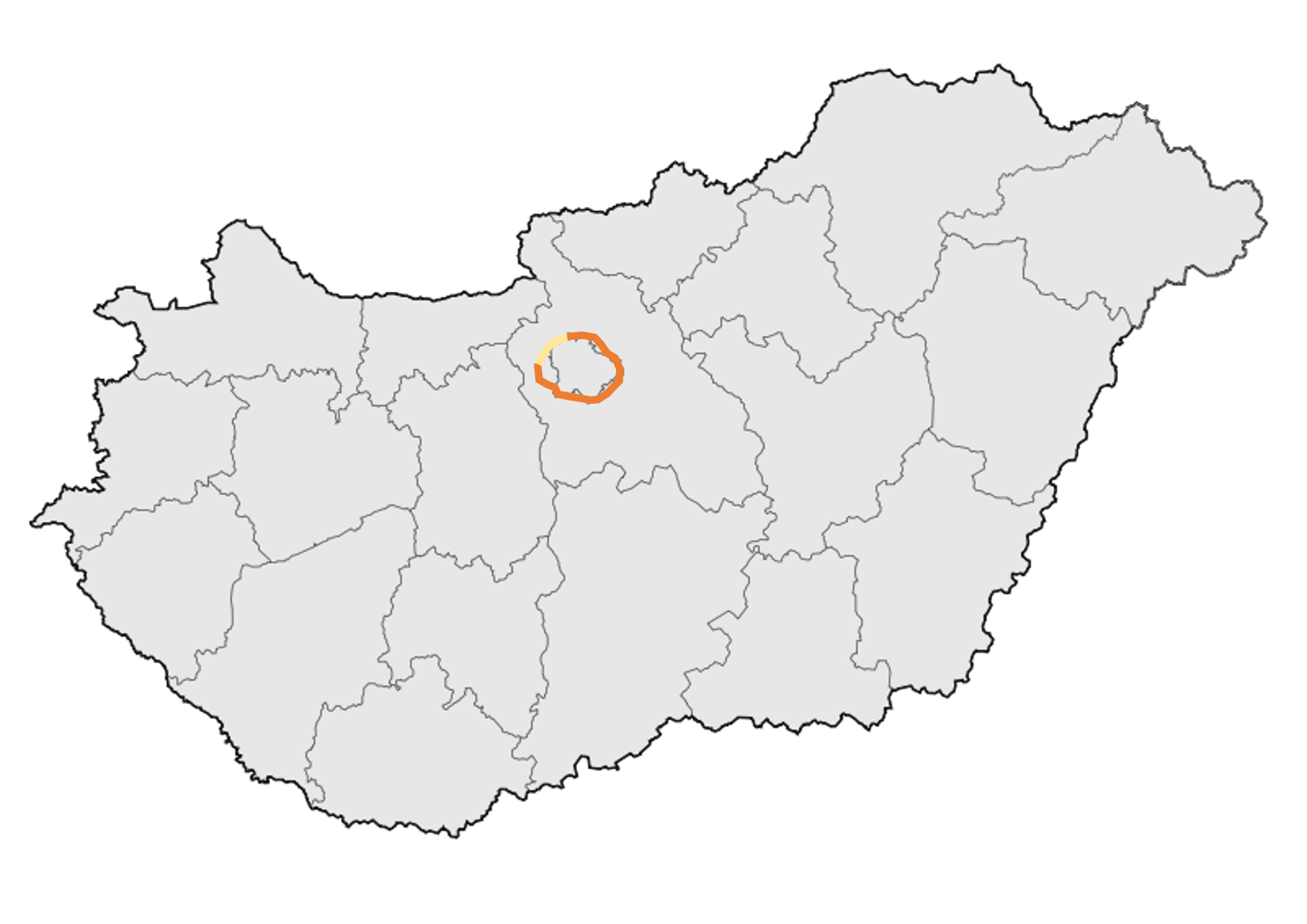 Traject the M0 Motorway, Hungary